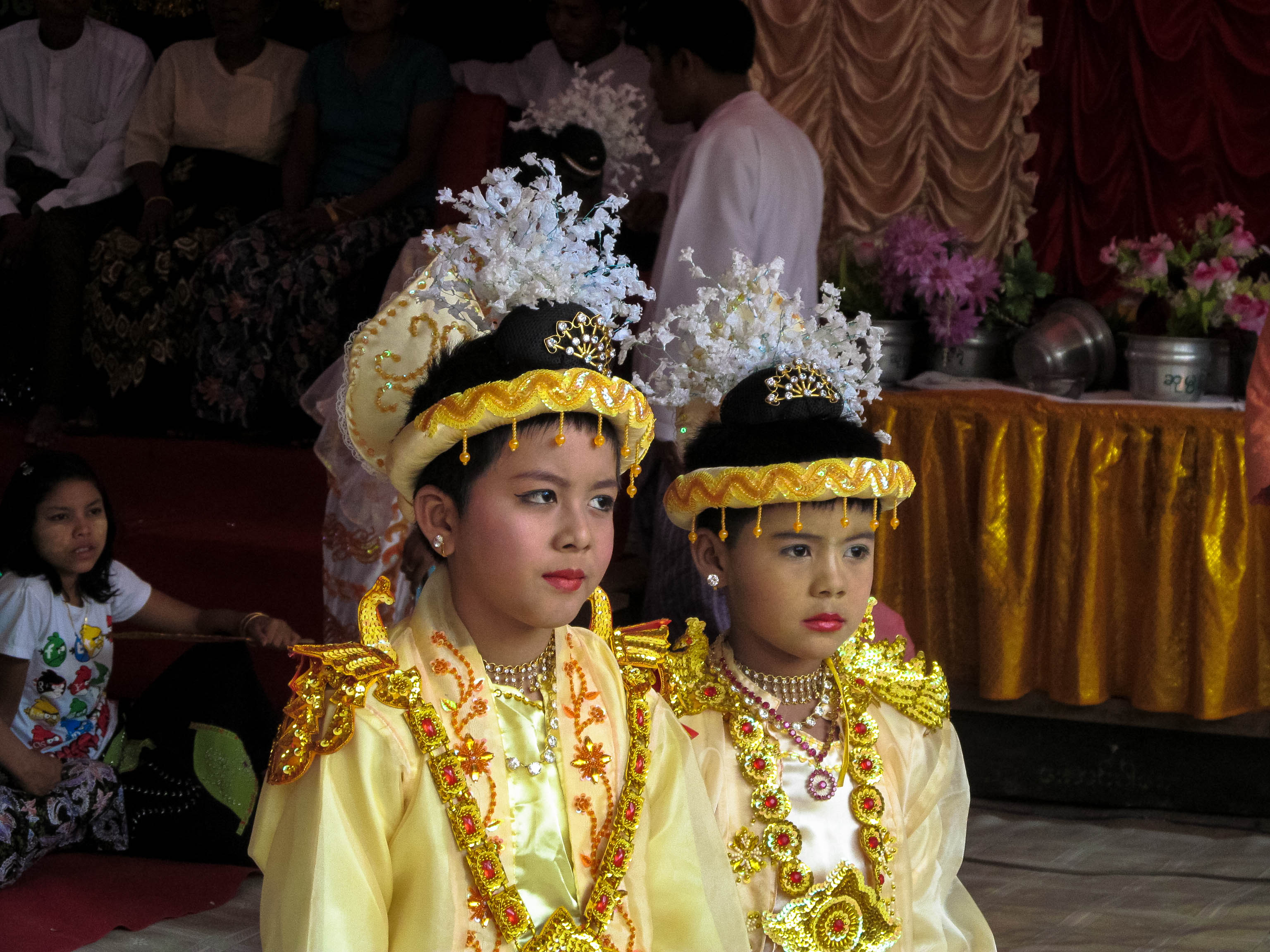 Shinlaung (novitiates-to-be)